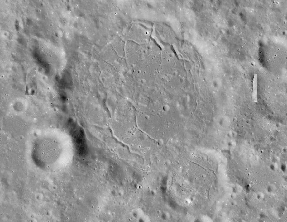 Crater Bunsen (detail of LRO - WAC global moon mosaic; Mercator projection)